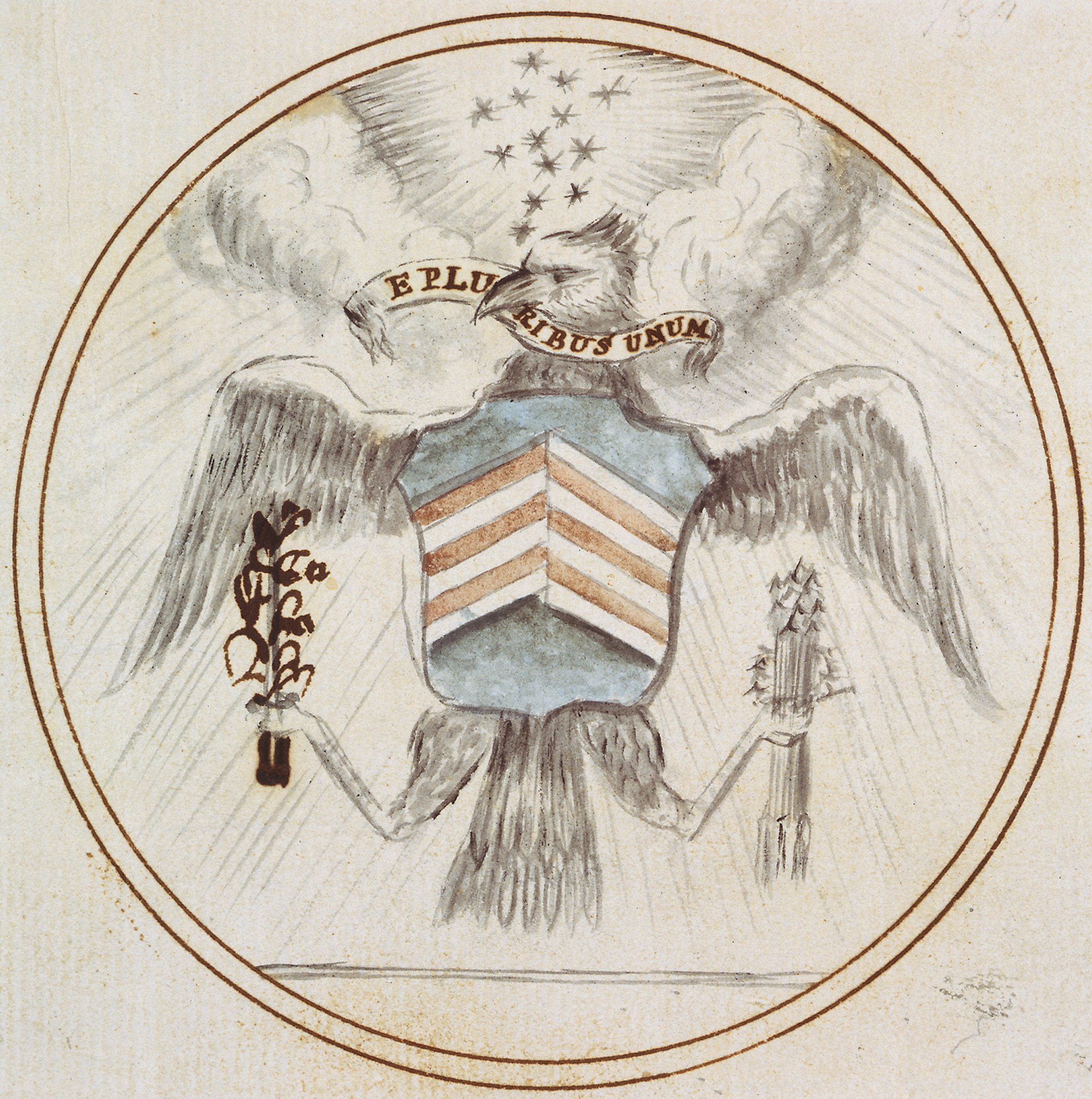 Preliminary version of the Great Seal of the United States by Charles Thomson, the Secretary of Congress. Three separate committees had tried and failed to come up with a suitable design for a national seal which satisfied the Continental Congress; Thomson then took elements from all the preceding designs and came up with this version, which is very close to the final design. William Barton made some further refinements before the final report was submitted. Thomson's description of this design: On a field, _____ Chevrons composed of seven pieces on one side & six on the other, joined together at the top in such wise that each of the six bears against or is supported by & supports two of the opposite side the pieces of the chevrons on each side alternate red & white. The shield borne on the breast of an American Eagle on the wing & rising proper. In the dexter talon of the Eagle an Olive branch & in the sinister a bundle of Arrows. Over the head of the Eagle a Constellation of Stars surrounded with bright rays and at a little distance clouds. In the bill of the Eagle a scroll with these words E pluribus unum. Barton changed the stripes on the shield to be paleways (vertical), changed the presentation of the eagle to be "displayed" (wings spread and elevated) instead of "rising", specified 13 arrows, and wrote a more properly heraldic description. Their final report was accepted and became the official Great Seal. There was no drawing in the final report; only the description.